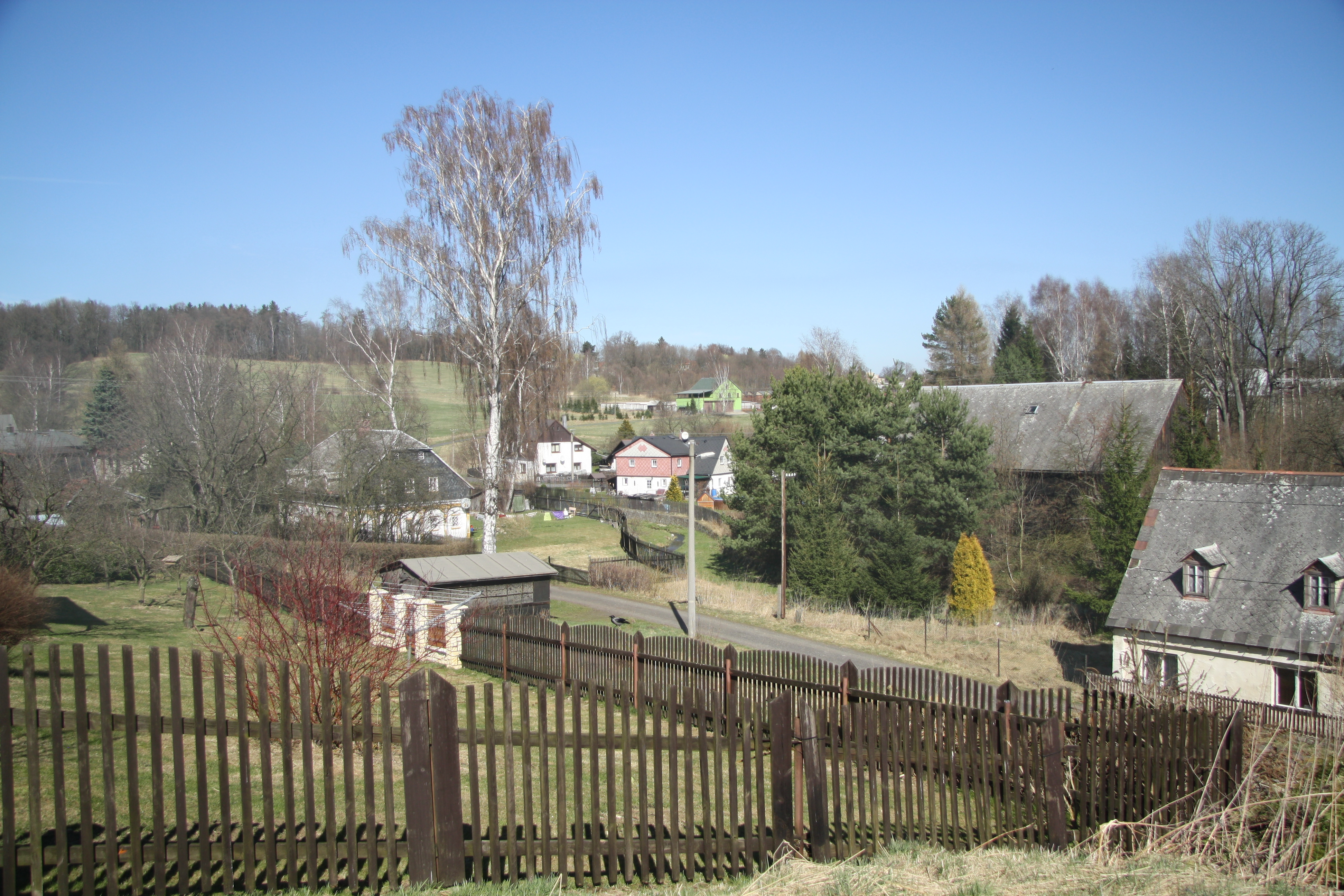 Overview of Starý Jiříkov, Jiříkov, Děčín District.